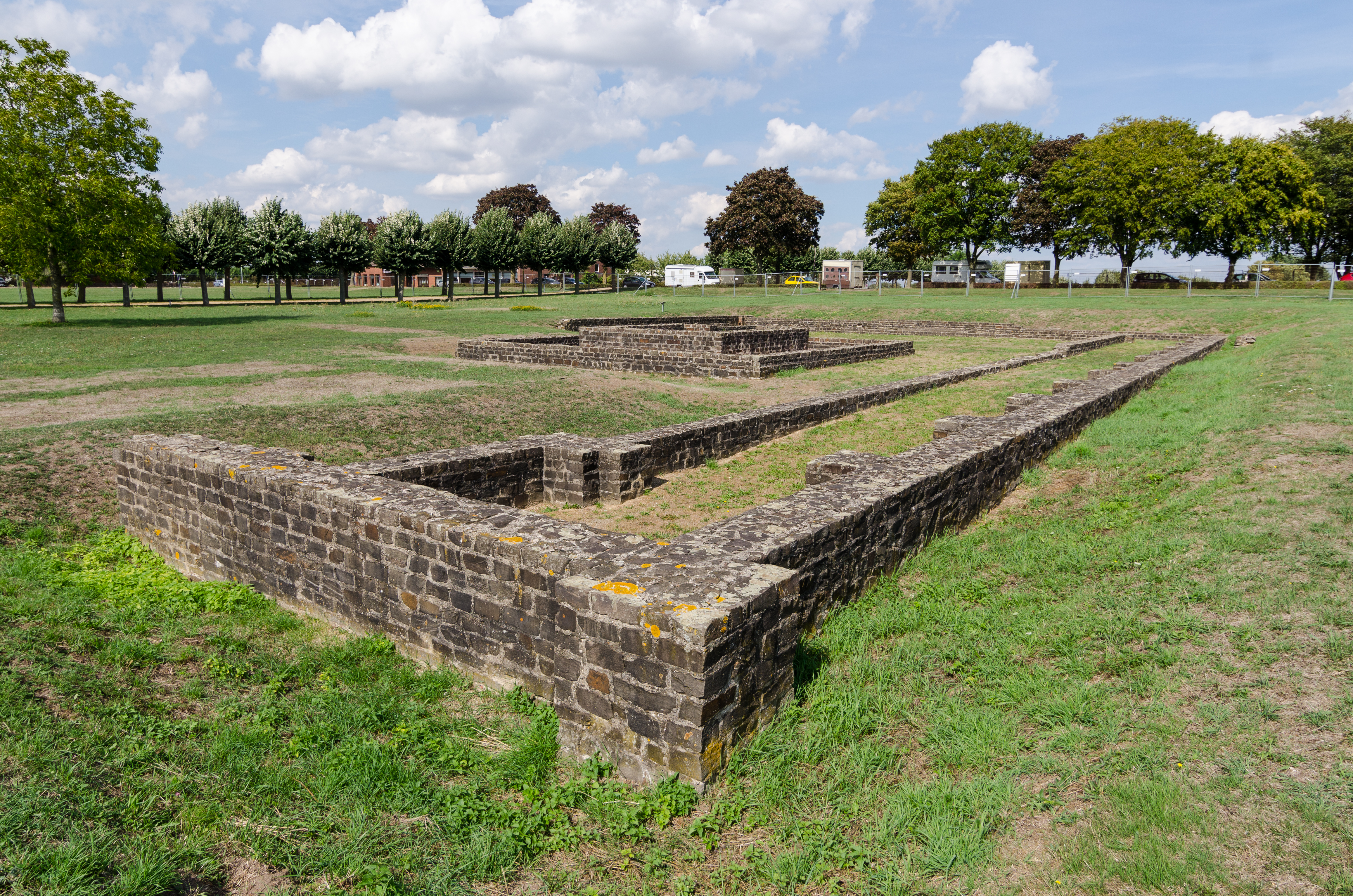 Xanten (North Rhine-Westphalia, Germany) – Archaeological Park – foundation wall of the matron temple in the ancient Roman settlement Colonia Ulpia Traiana